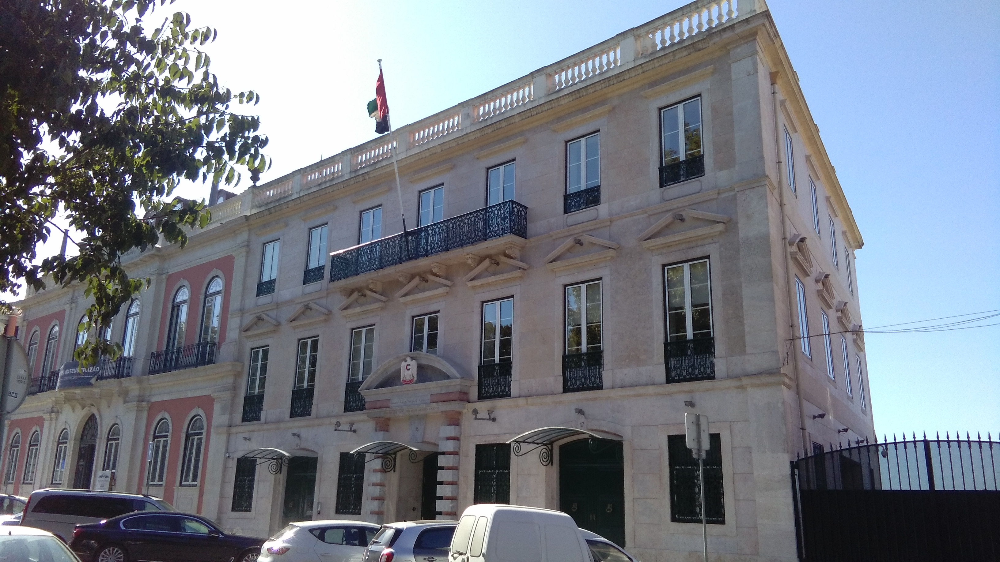 General view of the building of the Emirati Embassy in Lisbon, Portugal.